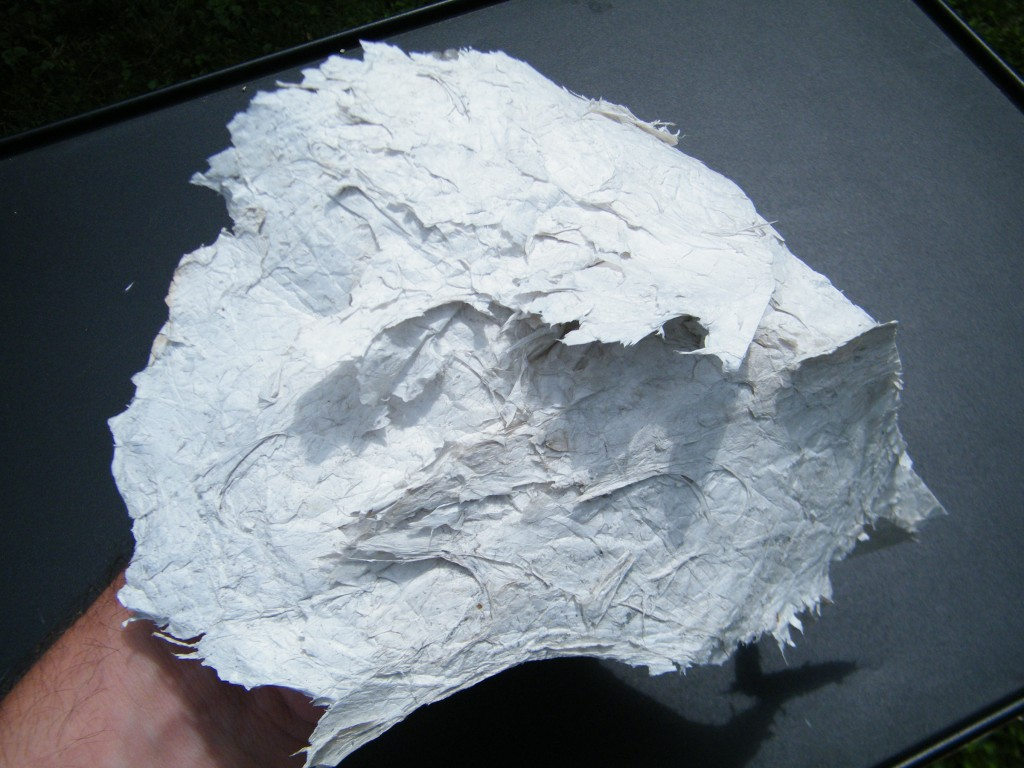 Palygorskite (Dimensions: 9" x 9") Locality: Metaline Falls, Metaline District, Pend Oreille County, Washington, USA Original description: Big old sheet of papery palygorskite from the Metaline District in Washington state. Silky and smooth, just like just about no other mineral specimen. Child photo of entire specimen.